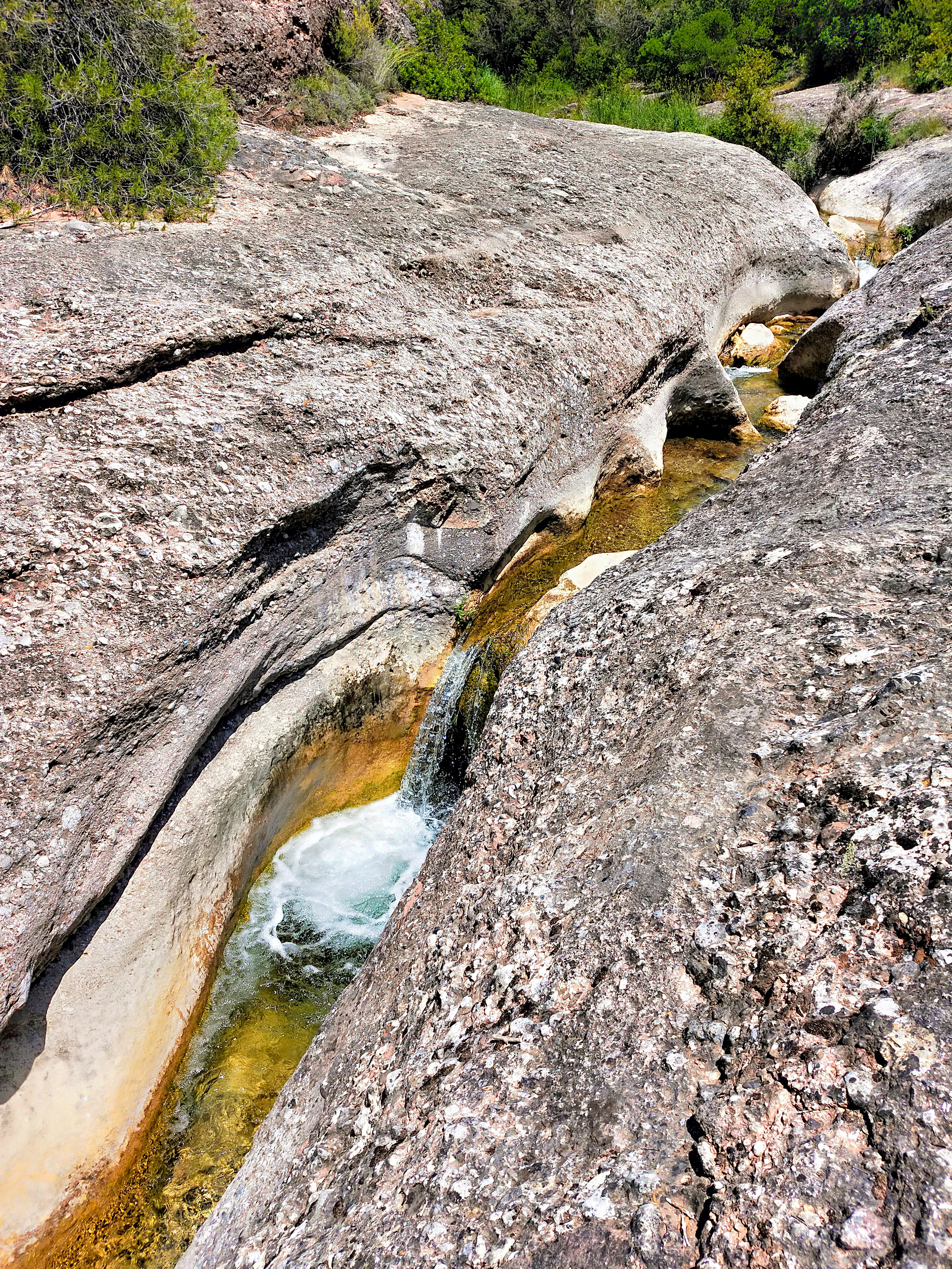 La riera de Rellinars cerca de su nacimiento